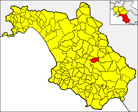 Locator map of the municipality of Sacco (red) within the Province of Salerno